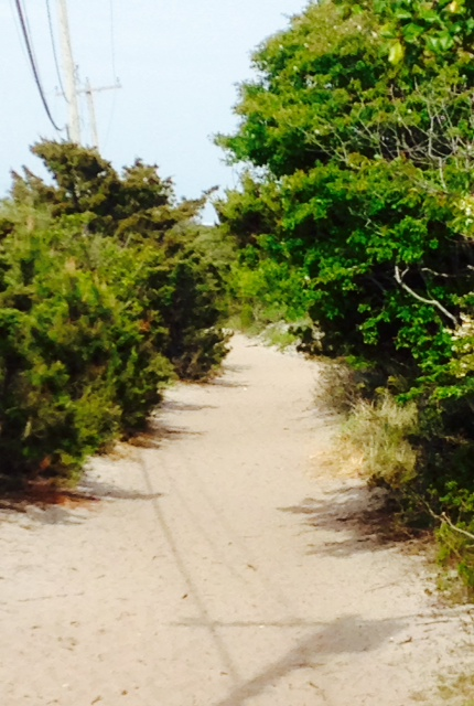 The Judy Garland Memorial Pathway (more commonly referred to as "the meat rack") linking together the communities of Cherry Grove and Fire Island Pines.